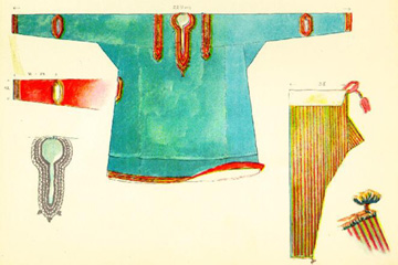 The dress shown in the middle is not shalwar kameez but a Kashmiri dress called Pheran. Shalwar kameez.